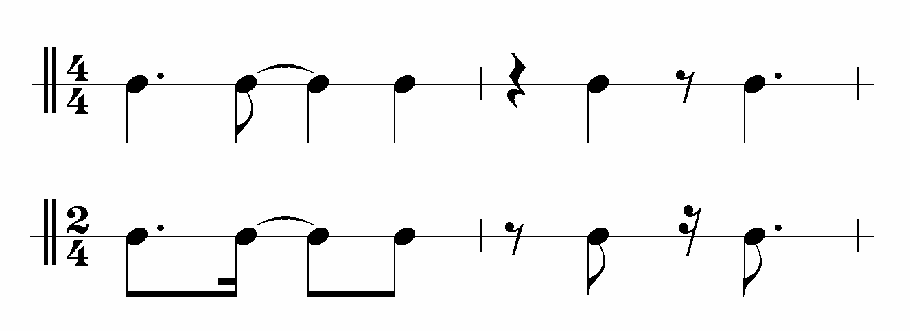 Rhythmic figure outlining the Bossa Nova rhythm, given in 4/4 and the „traditional Brazilian“ 2/4 metric notation. File by the uploader using Music Publisher 5.